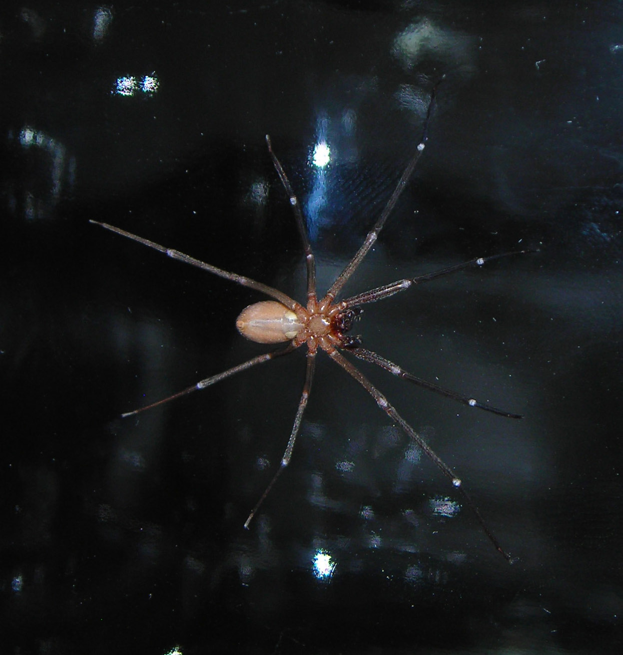 Bottom view of a brown recluse spider as taken in a glass jar